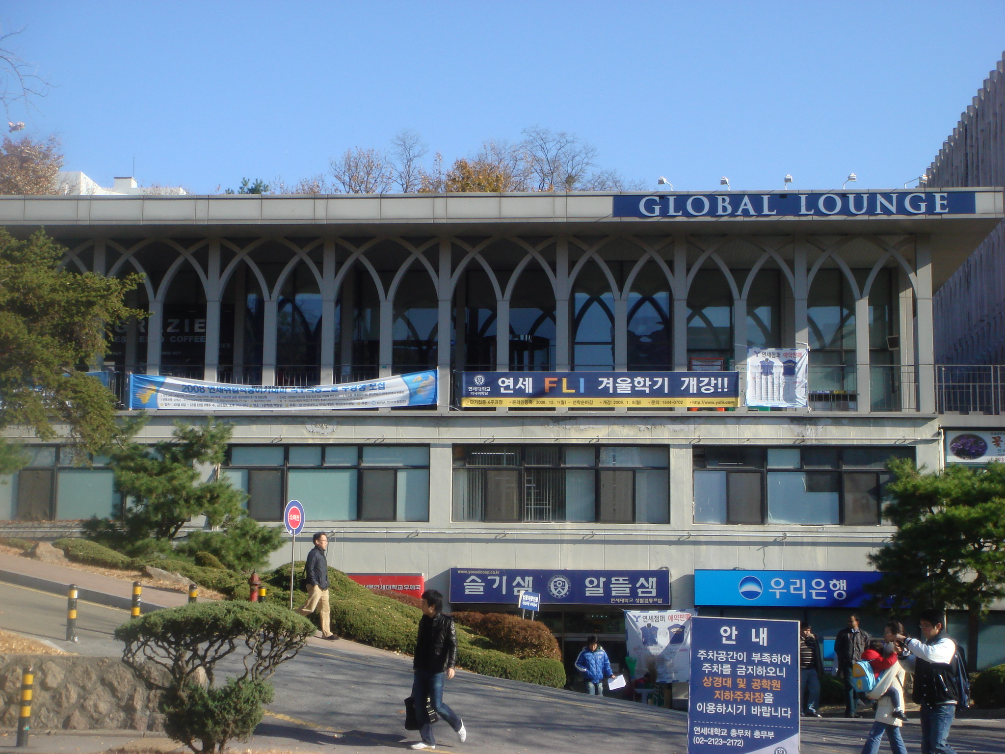 Global Lounge at Yonsei University, Seoul, South Korea